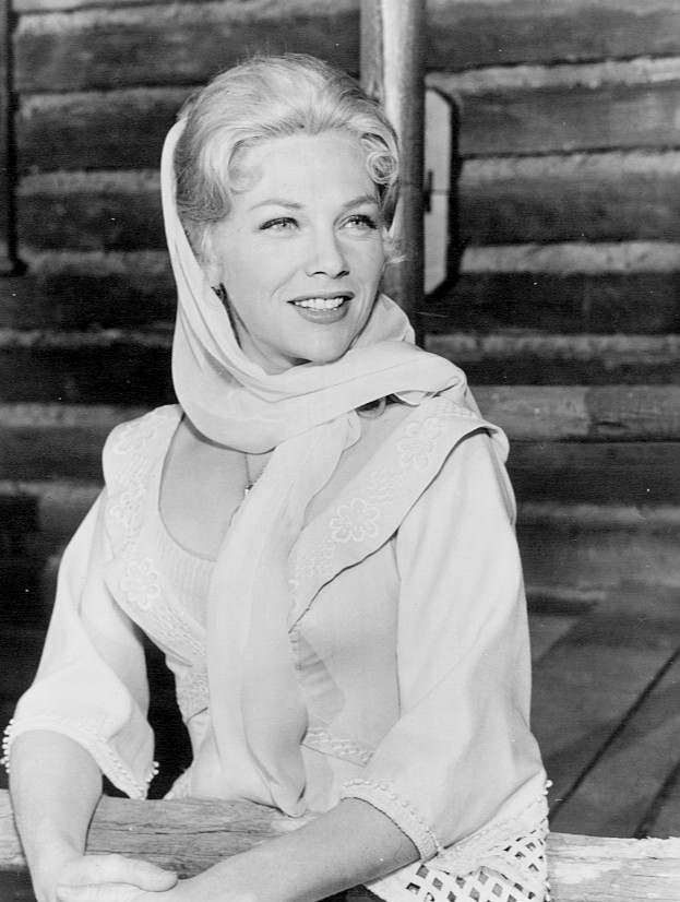 Photo of actress Joanna Moore from a guest appearance on the television series Wagon Train. The item has no copyright markings on it as can be seen in the links above.